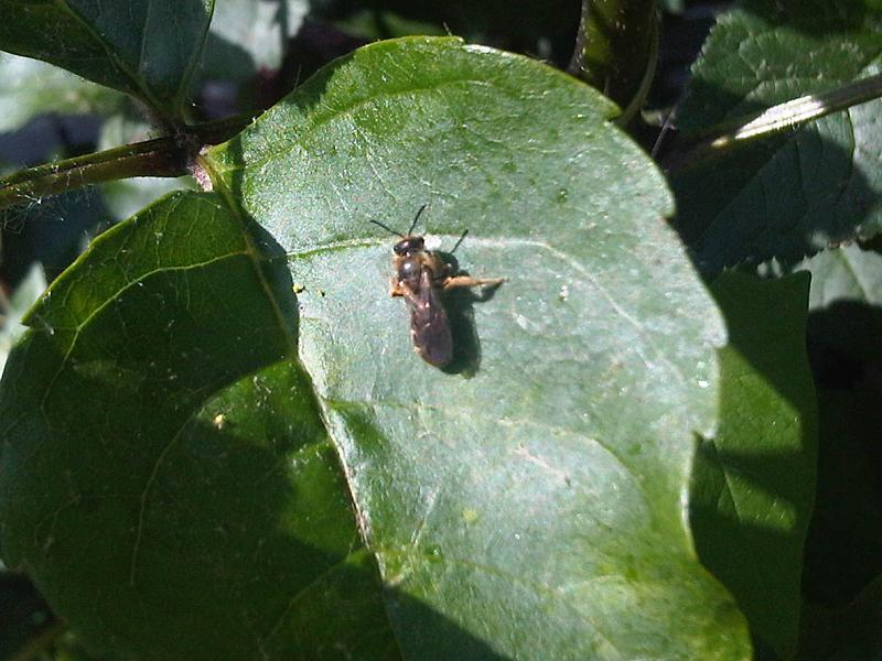 Tenthredo koehleri in London, United Kingdom.